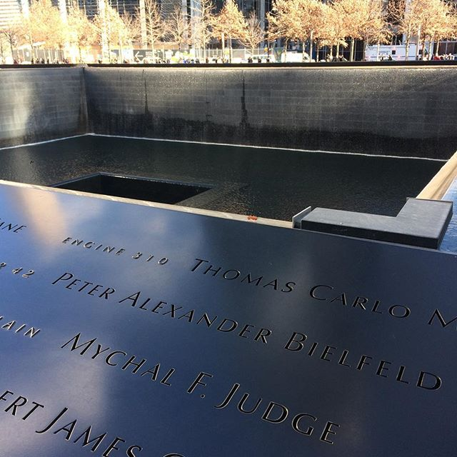 Fr. Mychal Judge’s name is on Panel S-18 of the National September 11 Memorial’s South Pool